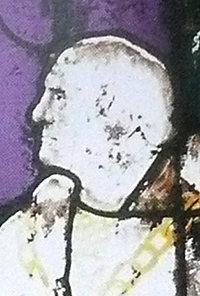 Chancellor Konrad Stürzel von Buchheim (~1435-1509). Detail of the left stained glass window in the Stürzel chapel in the Freiburg Minster. Original which was finished in 1528 by the Ropstein manufactory according to outlines by Hans Baldung and which is today in the depot of the Augustinermuseum in Freiburg. Window inscription: CONRAT STÜRZEL VON BUOCHEIM ERBSCHENK DER LANTGROFSCHAFT ELLSES [Elsaß] RITTER DOCTOR R. K. M. [Roman Emperor] HOFKANTZLER UND SIN GEMACHEL FRAUW URSULA GEBORNE LOUCHERIN DENEN GOTT GENOD. ANNO XV UND IM FINFTEN. [1505]